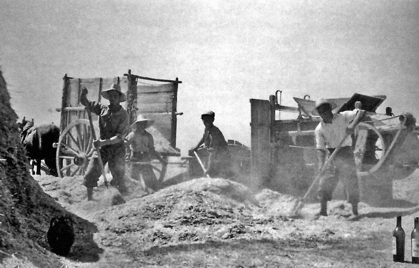 A winnowing machine in Spain 1955